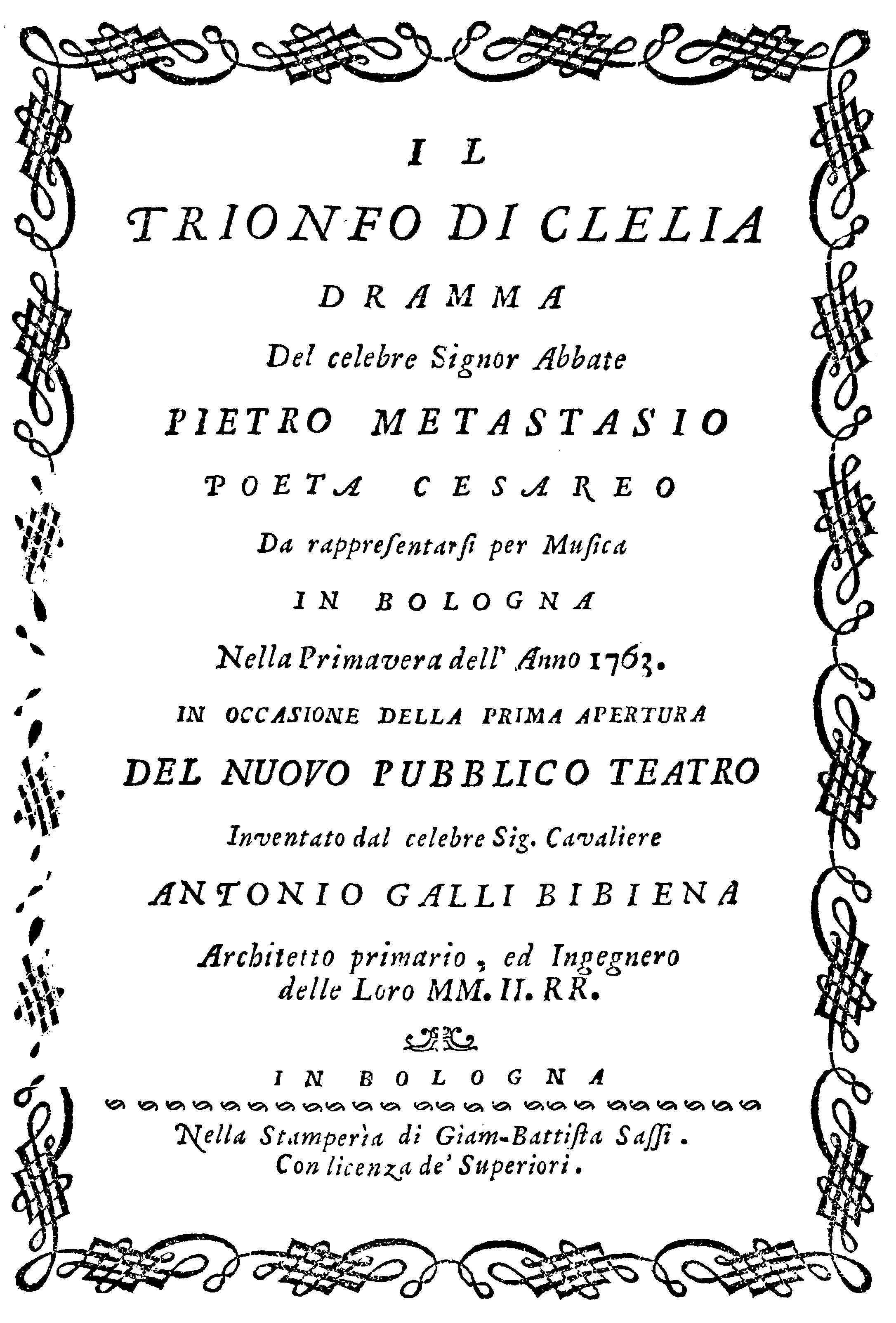 Christoph Willibald Gluck - Il trionfo di Clelia - titlepage of the libretto - Bologna 1763